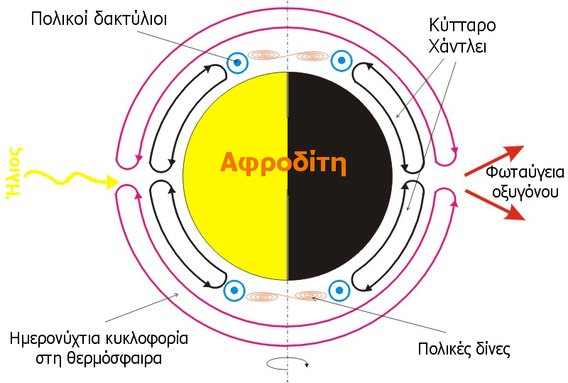 Translation of File:Venus circulation.jpg to Greek